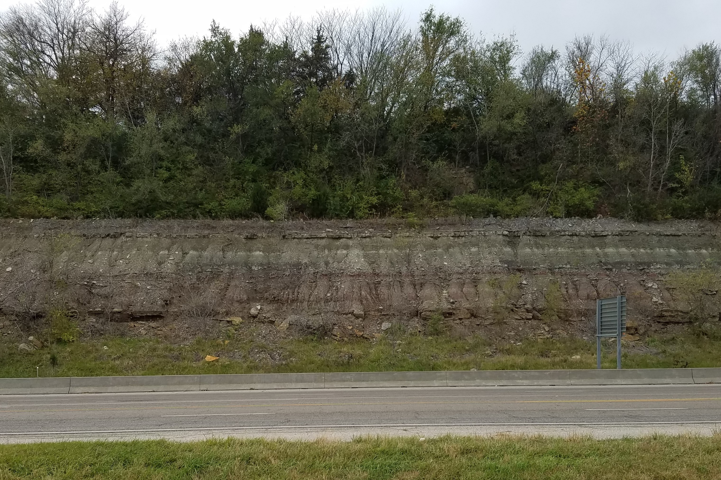 Roca Shale road cut on Seth Child KS-113, Manhattan, Kansas.